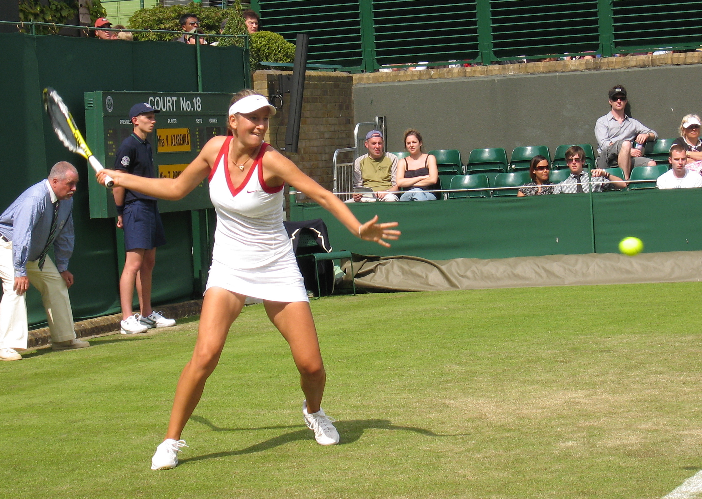 Victoria Azarenka at Wimbledon 2008